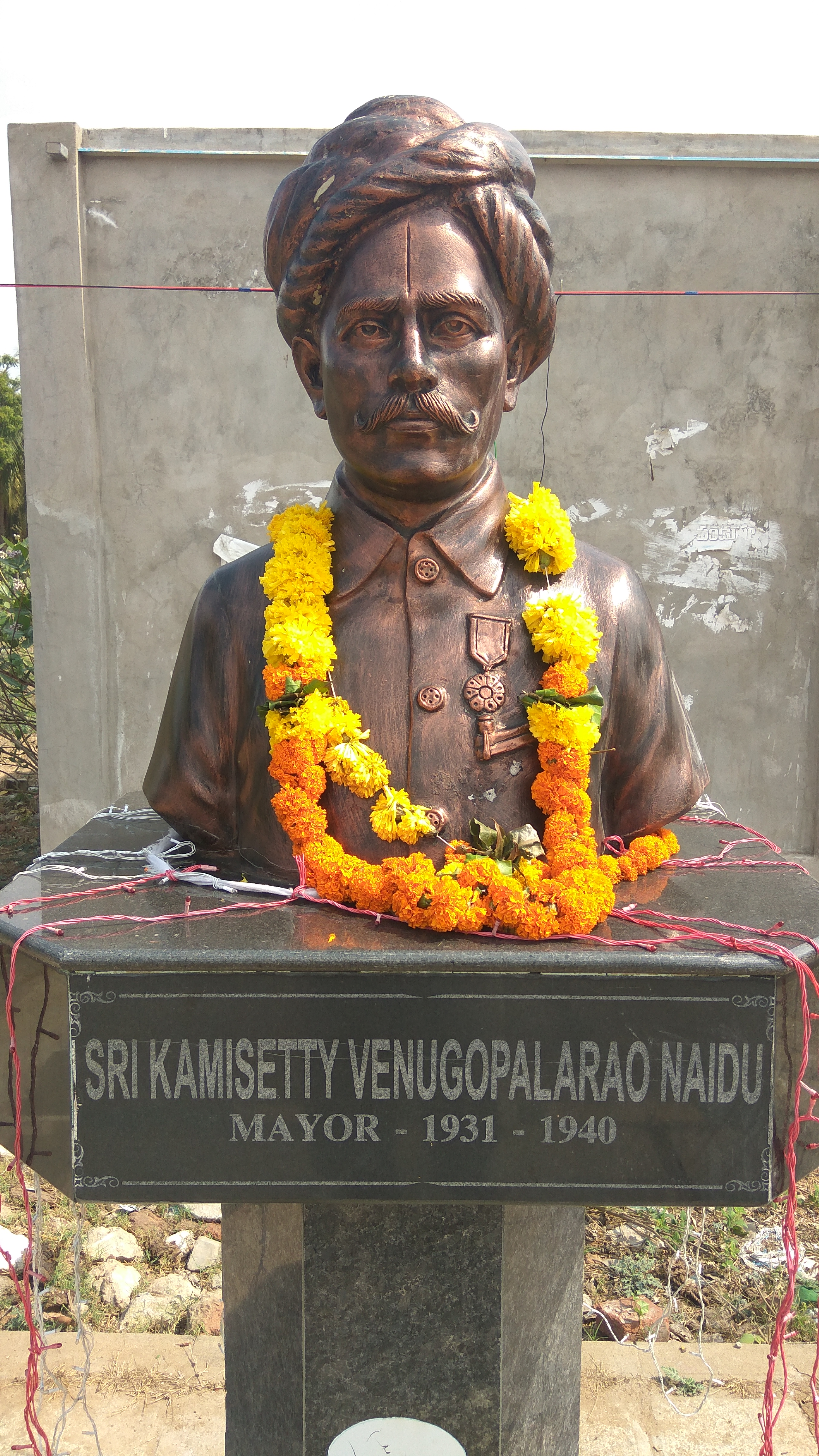 Kamisetty Venugopalarao Naidu, Mayor (1931-40)